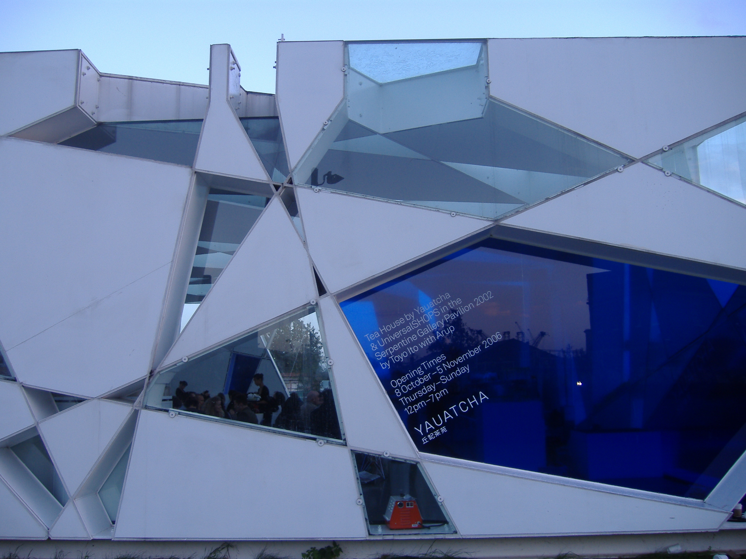 Serpentine Gallery Pavilion 2002 — by architect Toyo Ito.